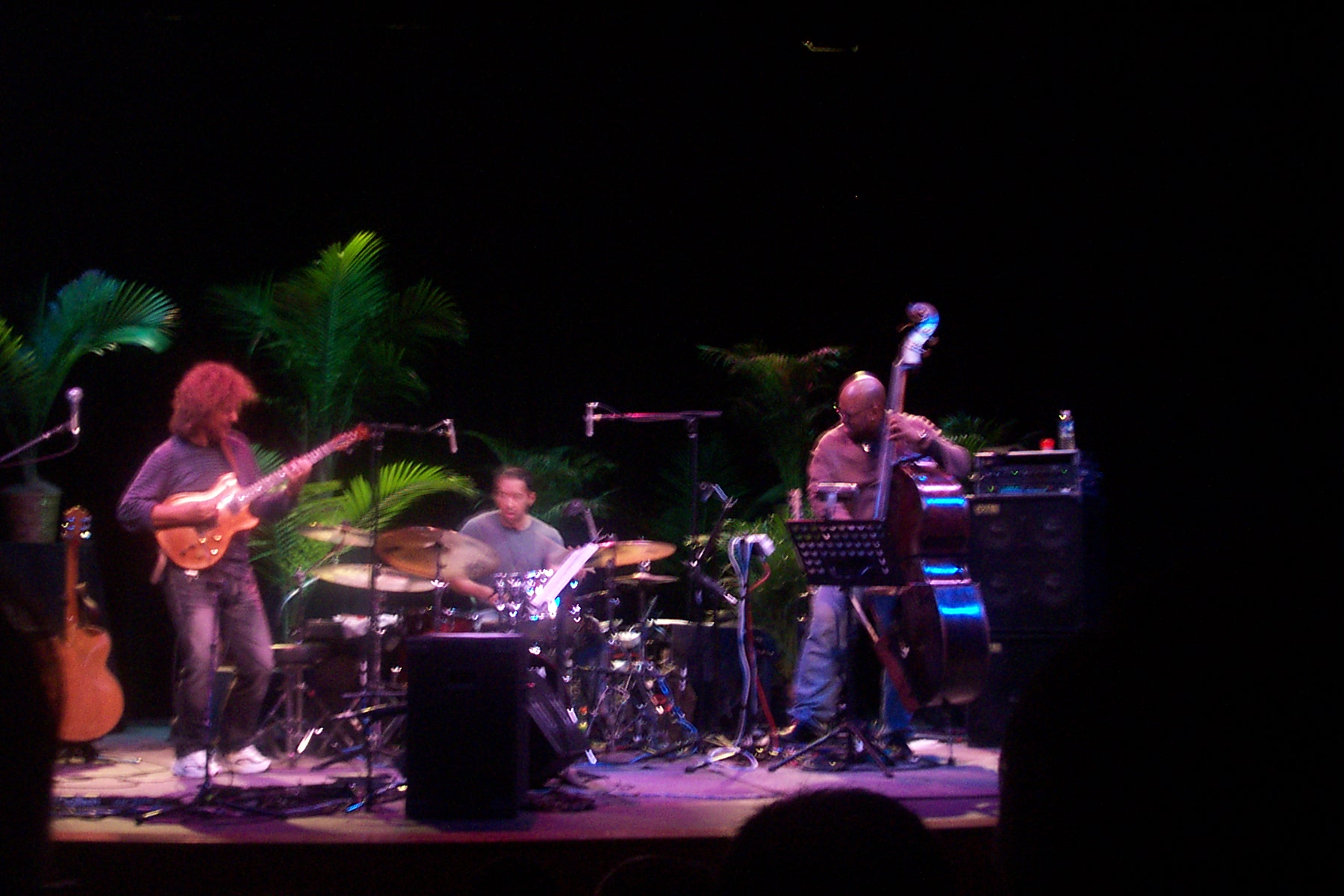 Sneakin' some pics at the Pat Metheny Trio show in Pittsburgh.